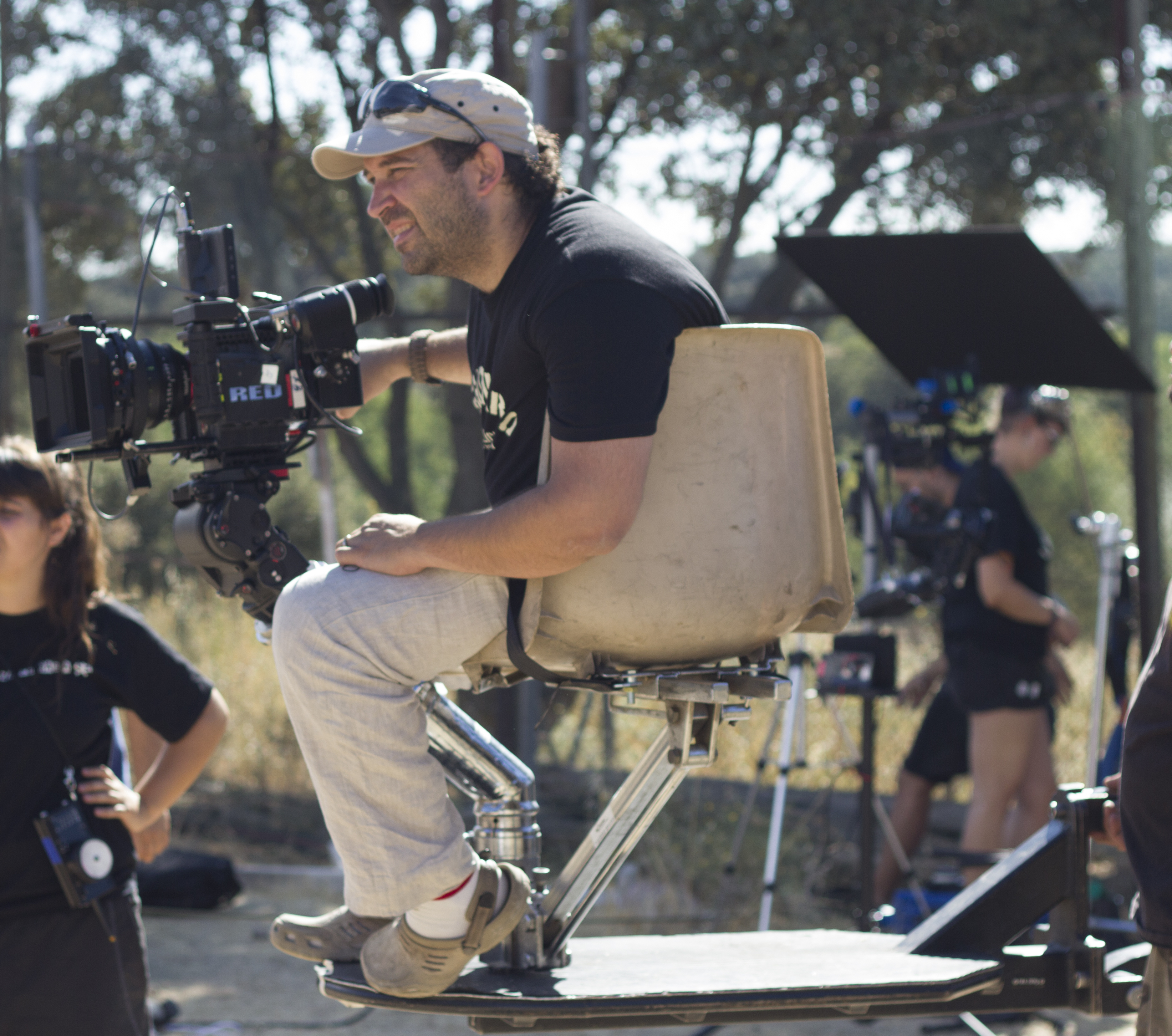 Eduardo H. Garza sits on a camera crane looking to the scene